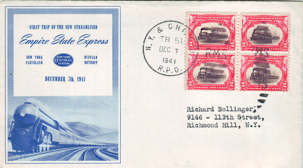 Commemorative cover carried on the RPO on the first streamlined westbound run of the "The Empire State Express" (New York Central System), December 7, 1941. Cover franked with a block of four Scott 295 2c Carmine & Black Pan-American Exposition Issue (May 1, 1901) Vignette: 4-4-0 locomotive No. 938 & passenger cars "Empire State Express," New York Central & Hudson River Railroad. CDS cancel: N.Y. & CHICAGO R.P.O. (with RMS killer) TR 51 DEC 7, 1941. This issue of six denominations (1, 2, 4, 5, 8, 10 cents) honored The Pan-American Exposition of 1901 (World's Fair) held at Buffalo, New York. (The Cooper Collection of U.S. Postal History)